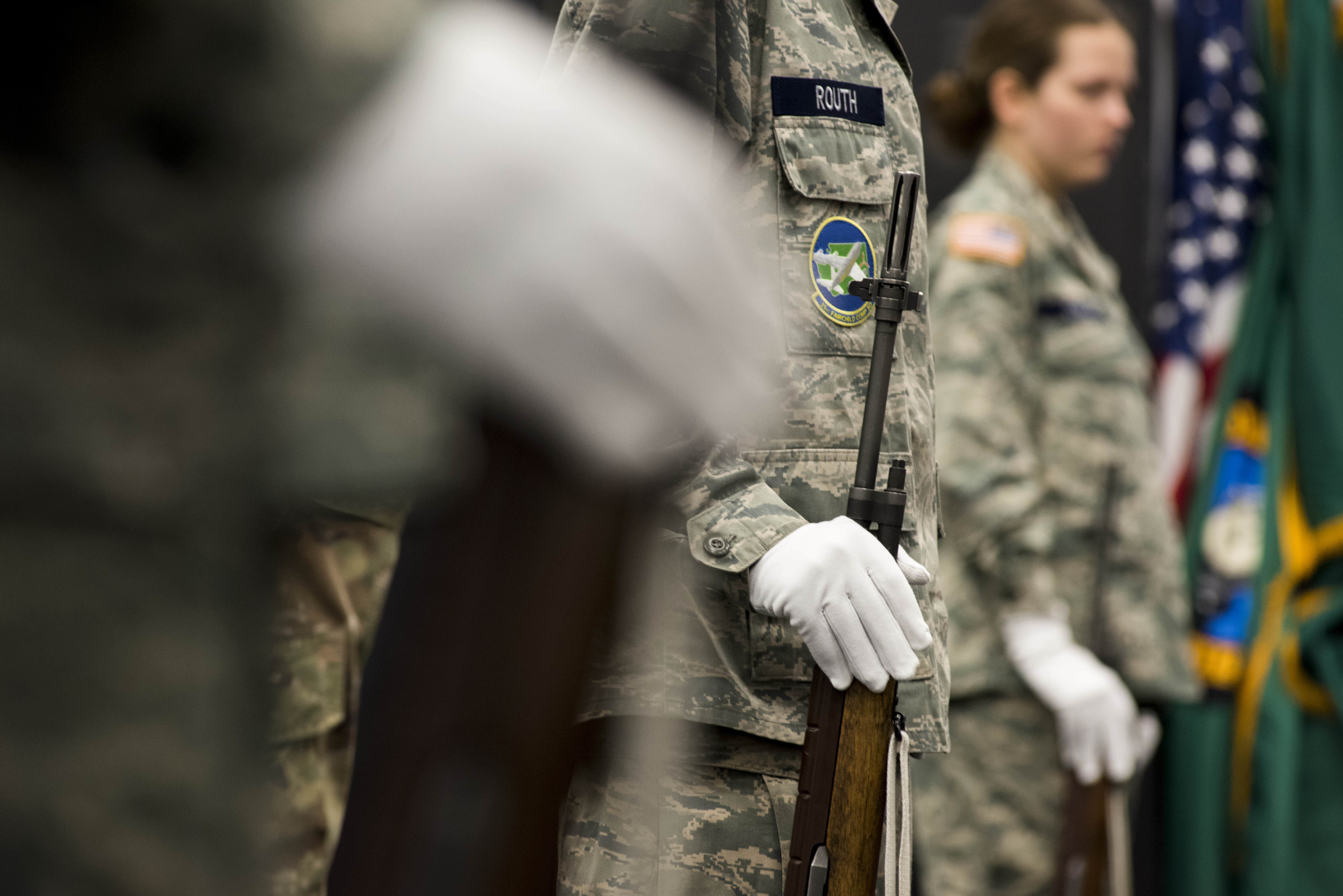 Cadets from the Civil Air Patrol 21st Fairchild Composite Squadron receive instruction on rifle procedures performed by 92nd Air Refueling Wing honor guardsmen at Fairchild Air Force Base, Washington, Feb. 26, 2019. The Civil Air Patrol 21st Fairchild Composite Squadron, consisting of cadets between the ages of 14 and 50 years old, received training from the 92nd ARW base honor guard on colors, flags and rifles. (U.S. Air Force photo by Airman 1st Class Lawrence Sena)